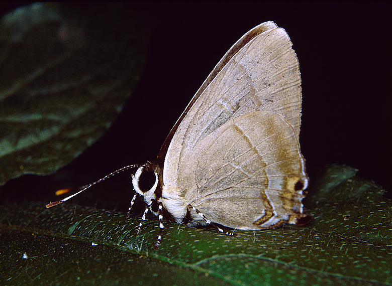 Male of Rapala cassidyi, Sulawesi Utara